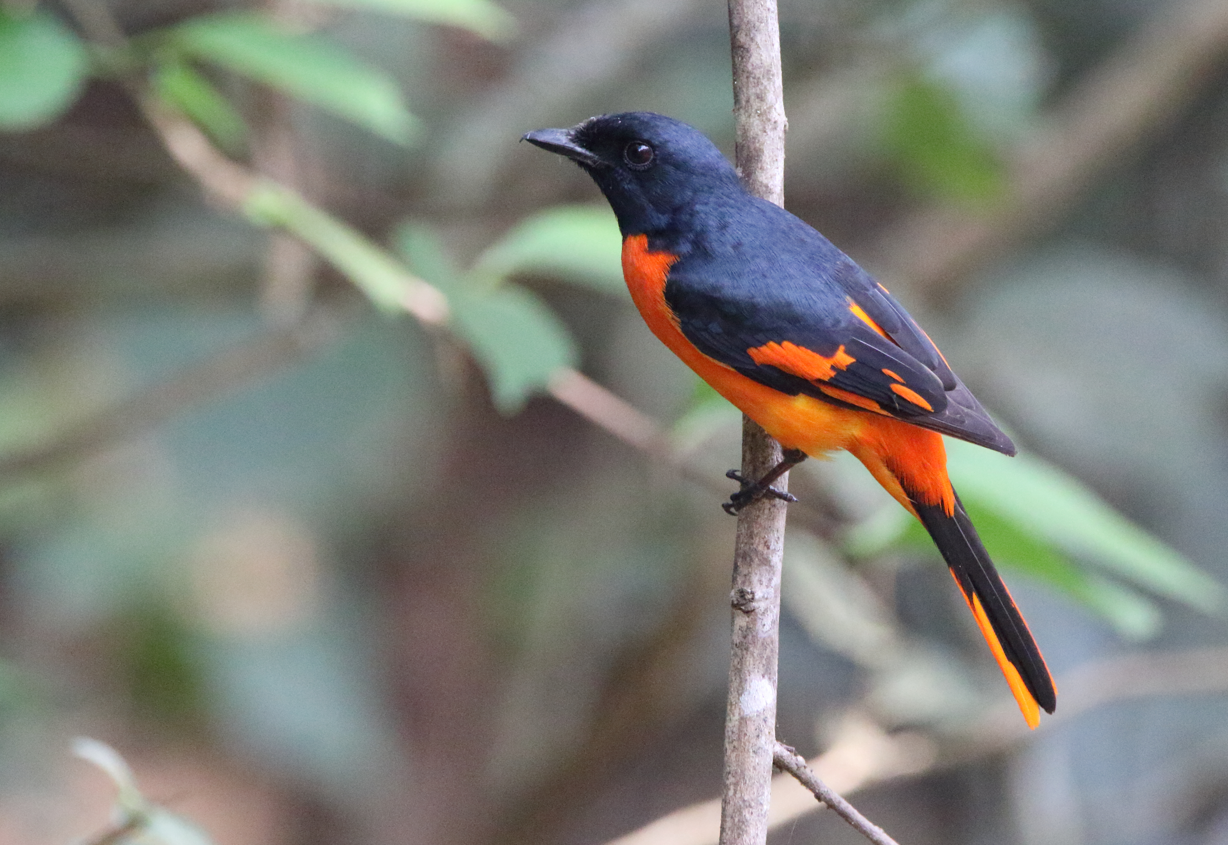 Orange Minivet, Pericrocotus flammeus, Male Ganeshgudi, Karnataka, India 28 FEB 2016